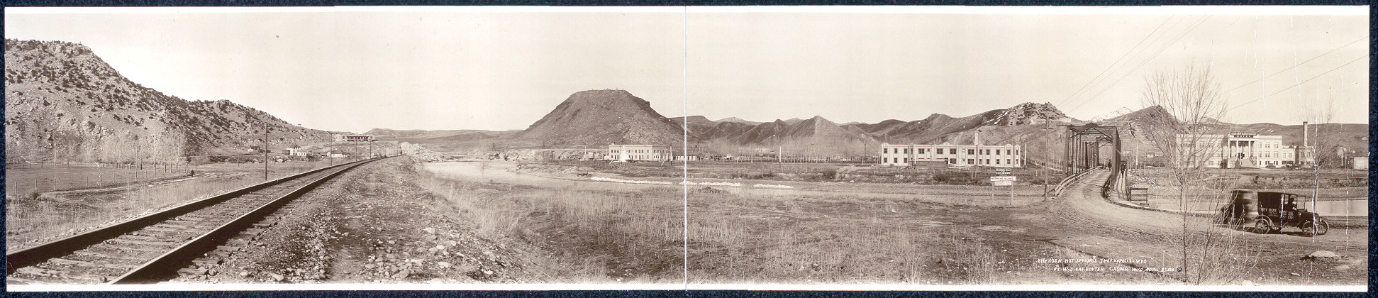 Big Horn Hot Springs, Thermopolis, Wyoming.